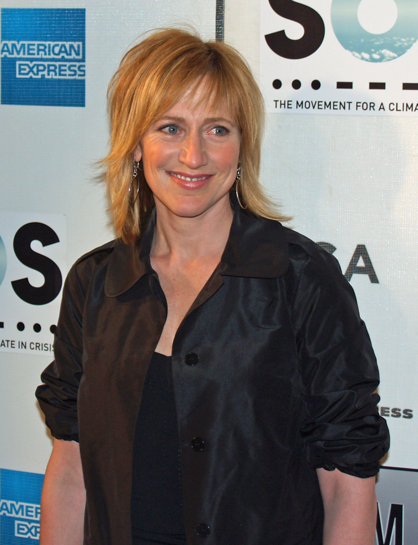 Edie Falco by David Shankbone